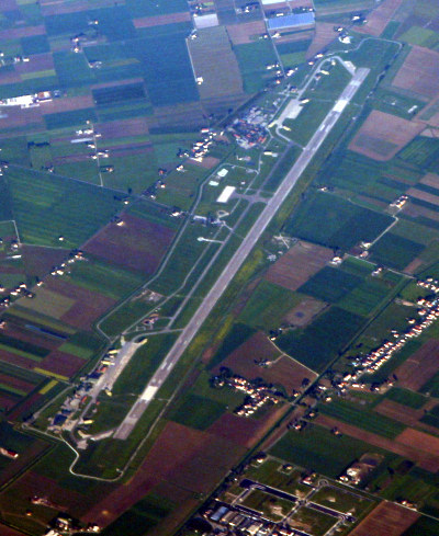 Cervia Air Force Base, Emilia-Romagna, Italy.